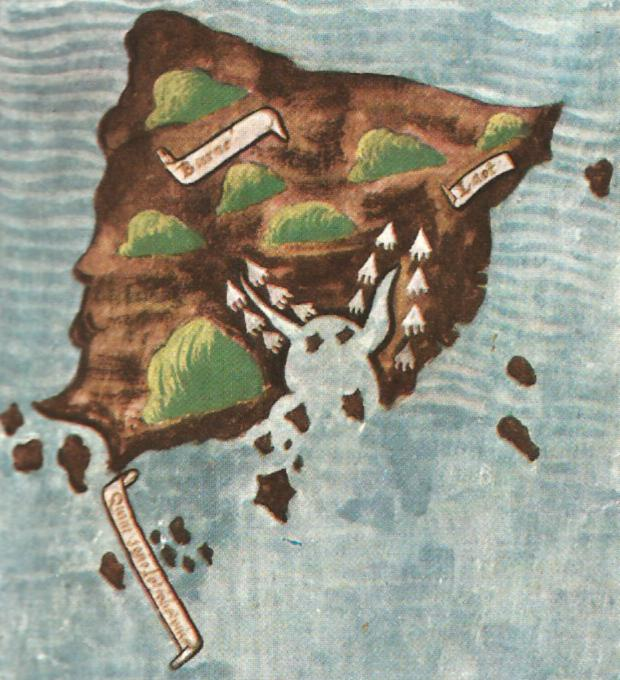 Old map of Borneo on 1521 drawn by Antonio Pigafetta